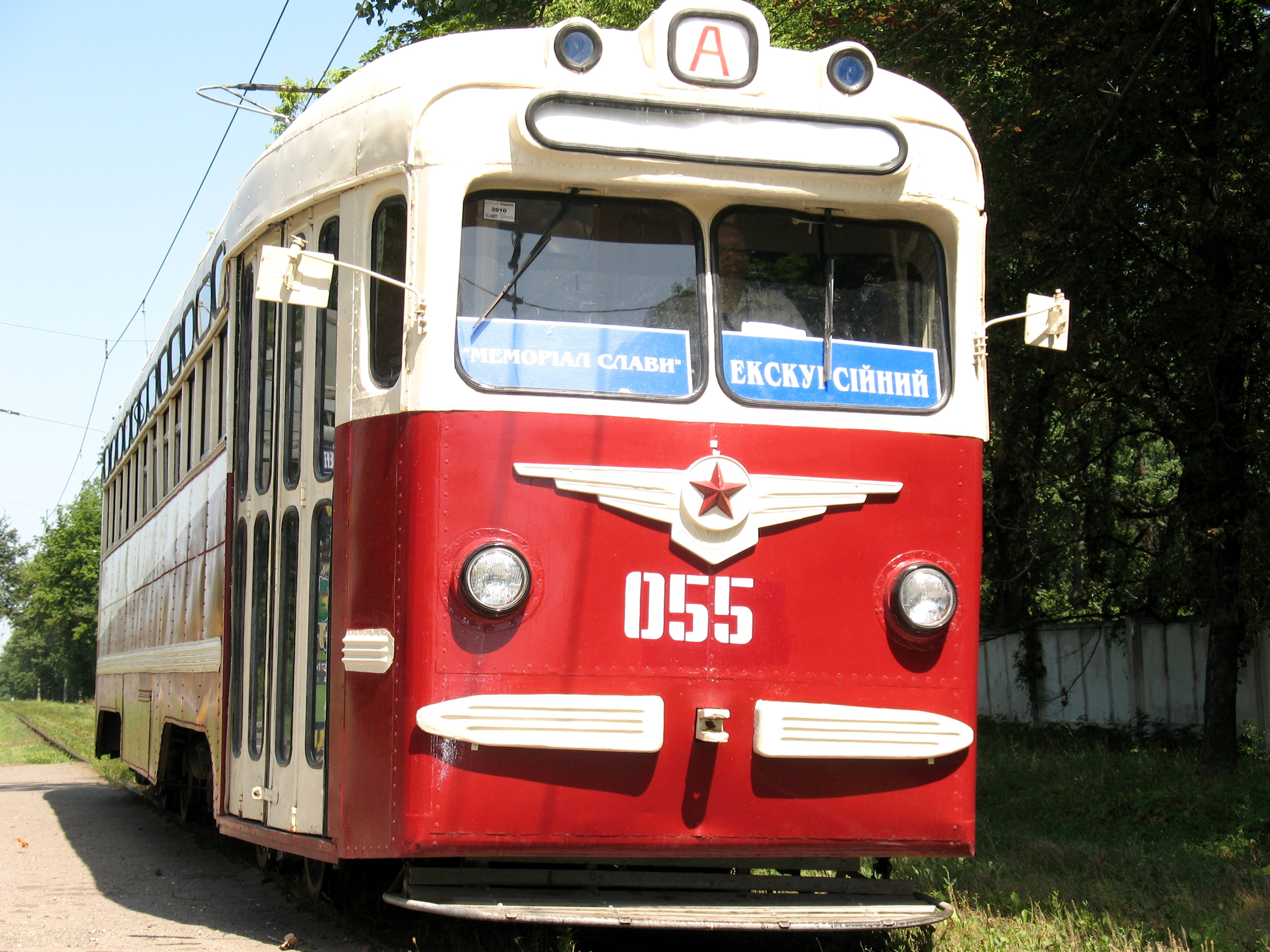 Kharkov City. Tram A.